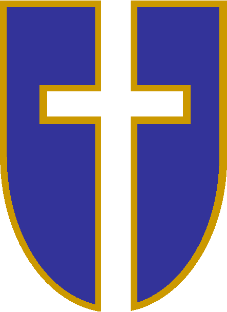 Coat of arms of the Catholic University of Maule (Chile)